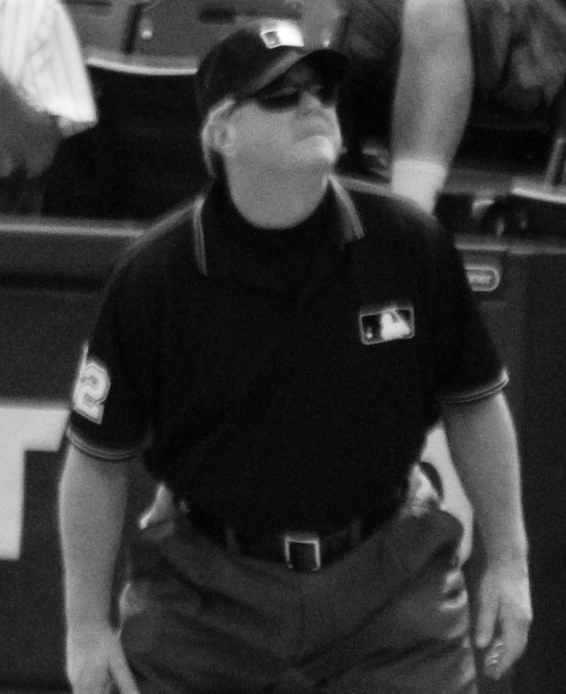 MLB umpire Dana DeMuth - August 23, 2008.